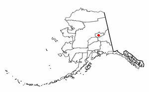 Adapted from Wikipedia's AK borough maps by Seth Ilys.